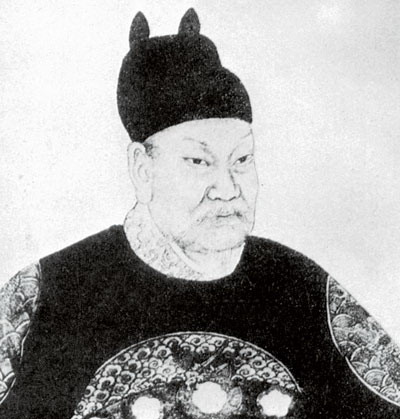 King of Wuyue TSIEN Liu (錢鏐) (852-932 CE)